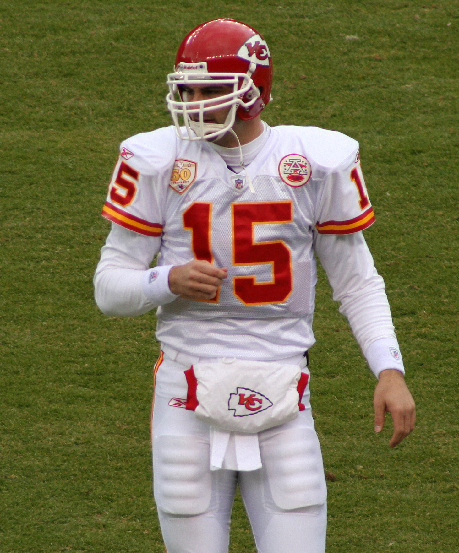 Matt Gutierrez, a player on the Kansas City Chiefs American football team.